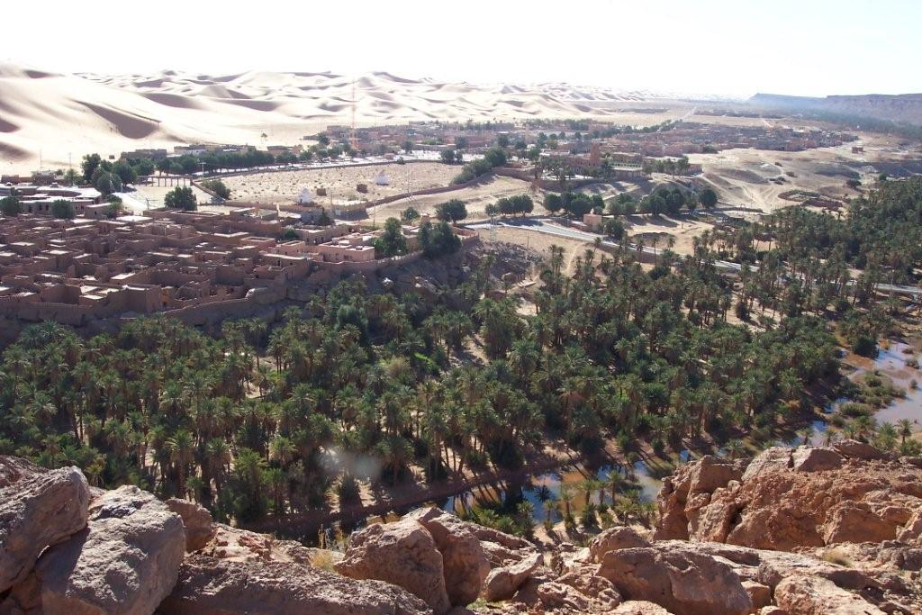 The oasis village of Taghit